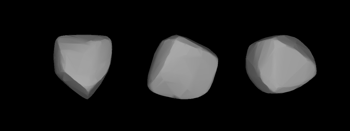 A three-dimensional model of 1472 Muonio that was computed using light curve inversion techniques.